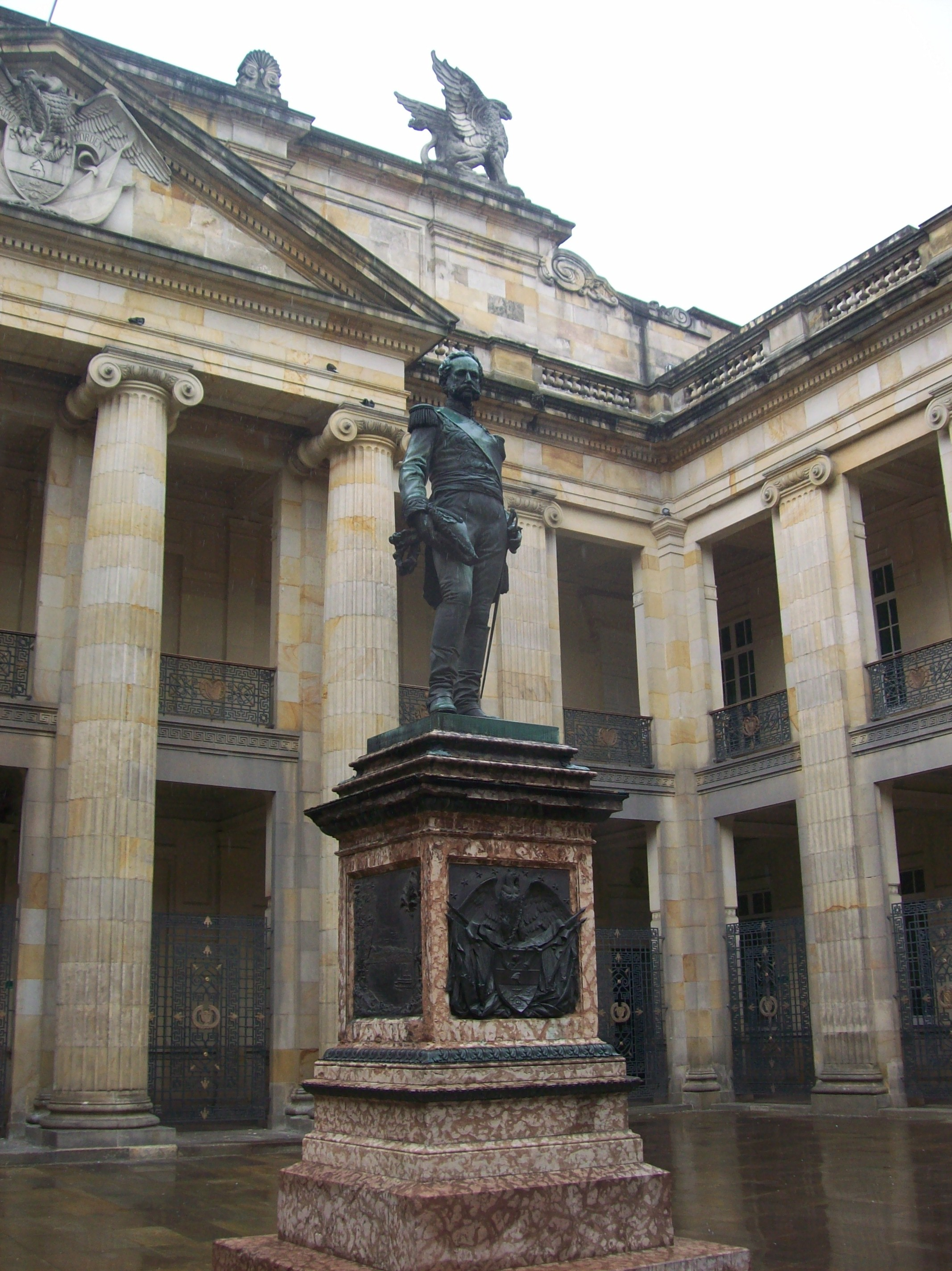 Statue of Tomas Cipriano de Mosquera by Ferdinand von Miller (1883) in the Capitolio Nacional de Colombia (Bogota).